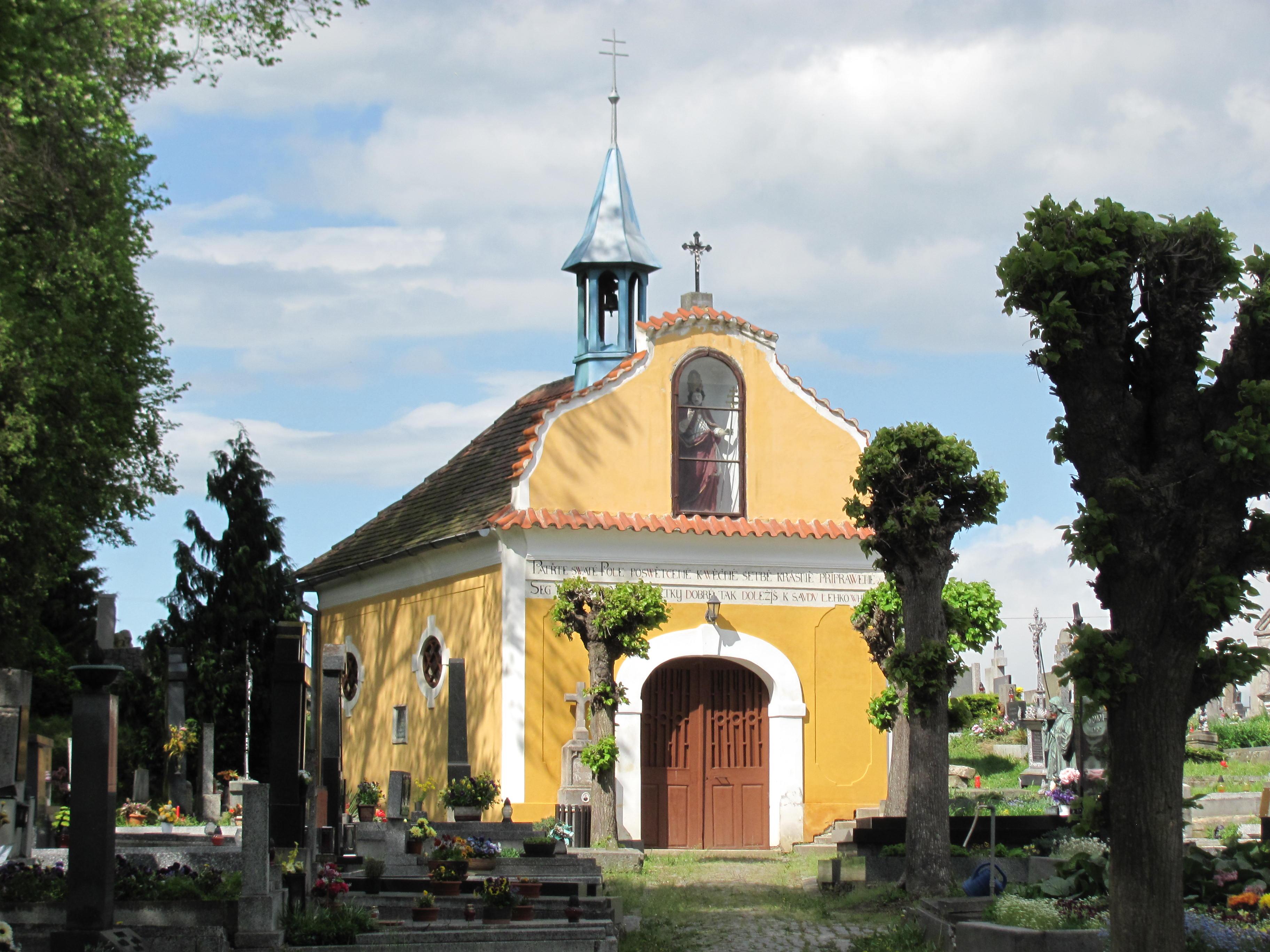 Cemetery chapel in Mirovice